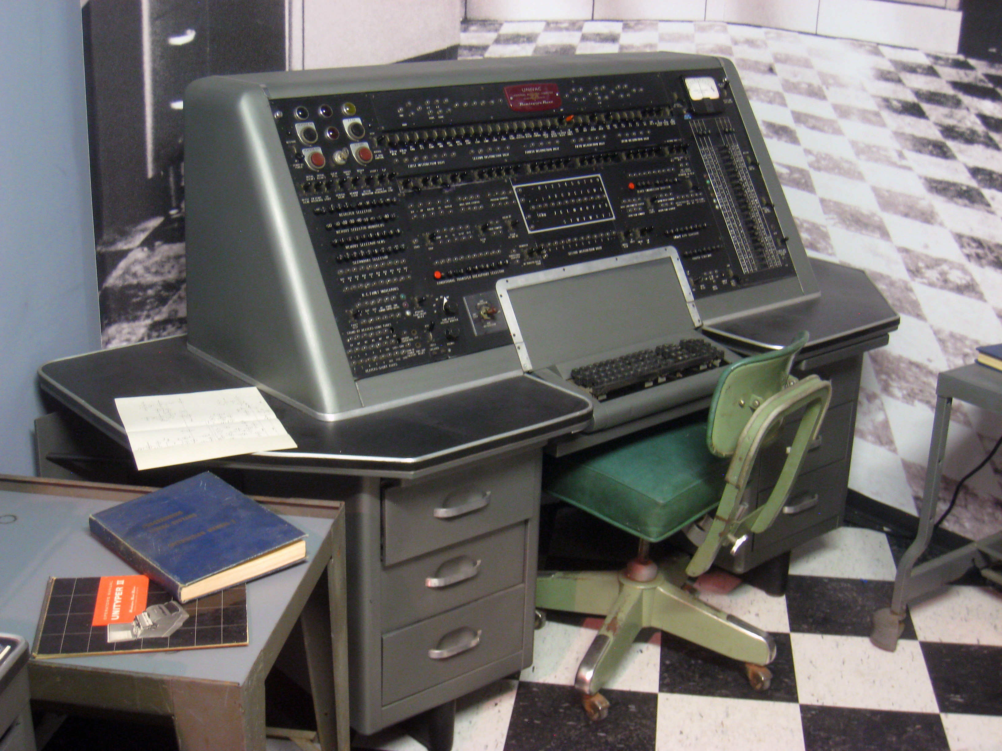 UNIVAC I control station, in Museum of Science, Boston, Massachusetts, USA. Note that there was no prohibition against photography in the museum.